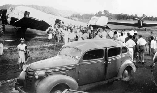 A crowd stands on the airfield watching women and children board the tri-motor Junkers G.31 aircraft VH-UOV owned by Bulol Gold Dredging Ltd at Salamaua, New Guinea. This aircraft evacuated women and children to Australia, following the Japanese raid on Pearl Harbour. The final evacuation of the remaining inhabitants of Salamaua took place on 24 January 1942. In the background sits a single engine Guinea Airways Junkers W 34 aircraft.